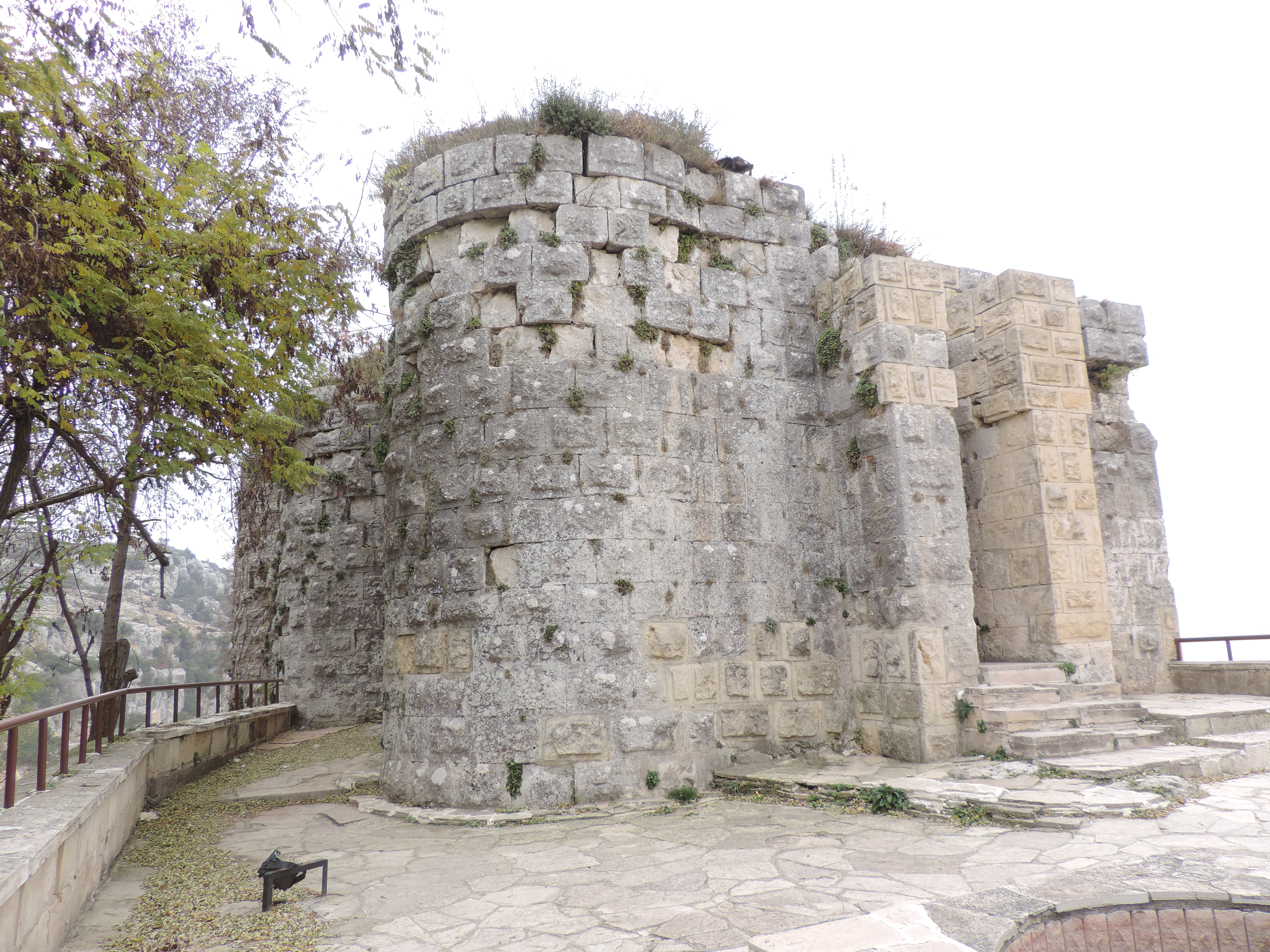 Southwest building of the Gözne Castle